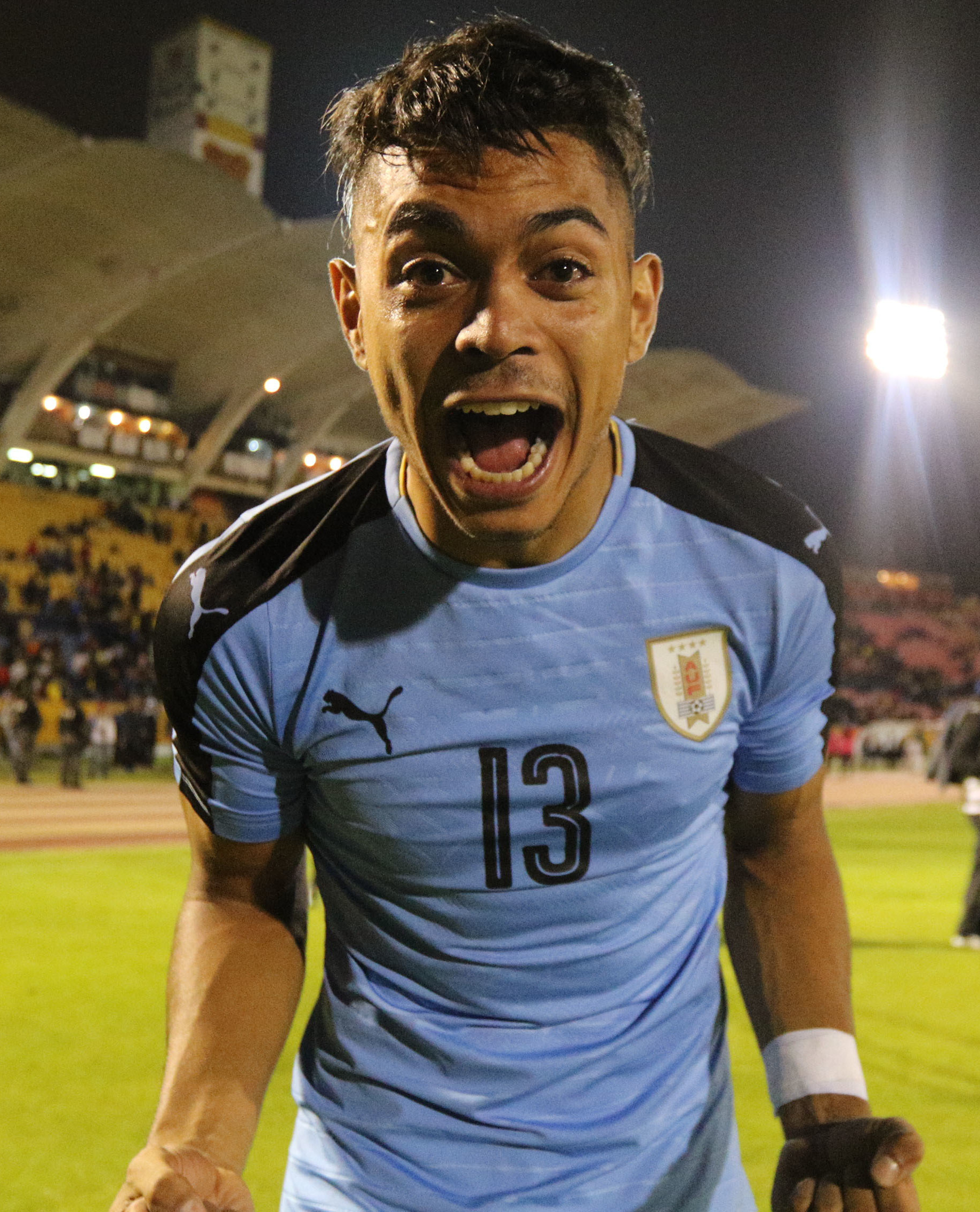 PREMIACIÓN CAMPEONATO SUDAMERICANO SUB 20